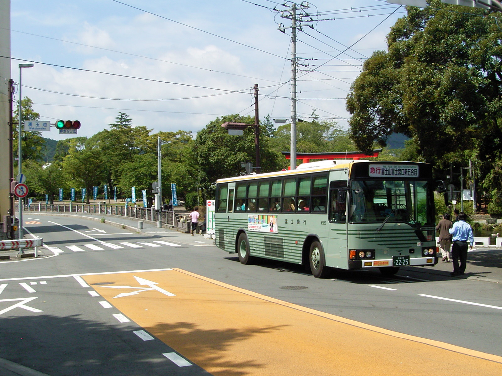 A bus for Mt. Fuji